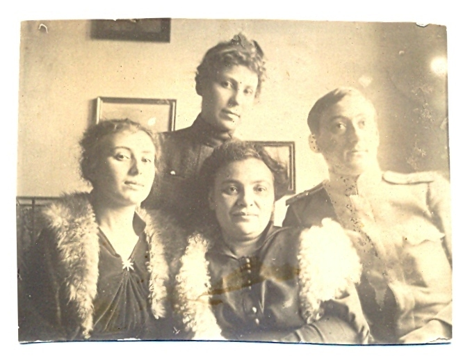 Bulgarian writer Anna Karima - with her three chidren: Evelina, Nadezhda, Ivan